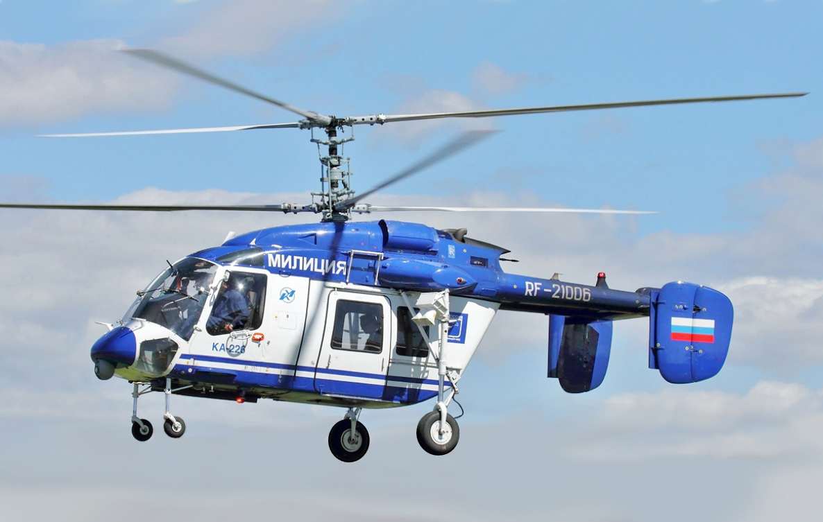 Kamov Ka-226, Ministry of the Interior of Russia